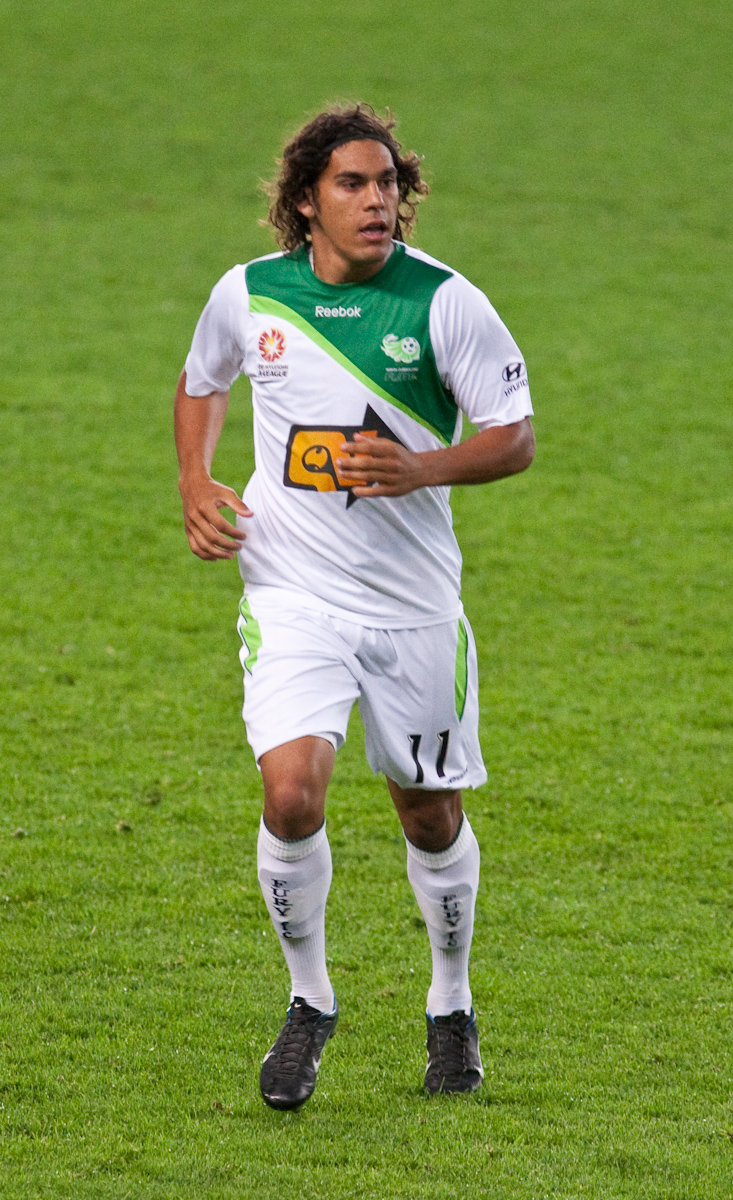 David Williams playing for the North Queensland Fury in the A-League.